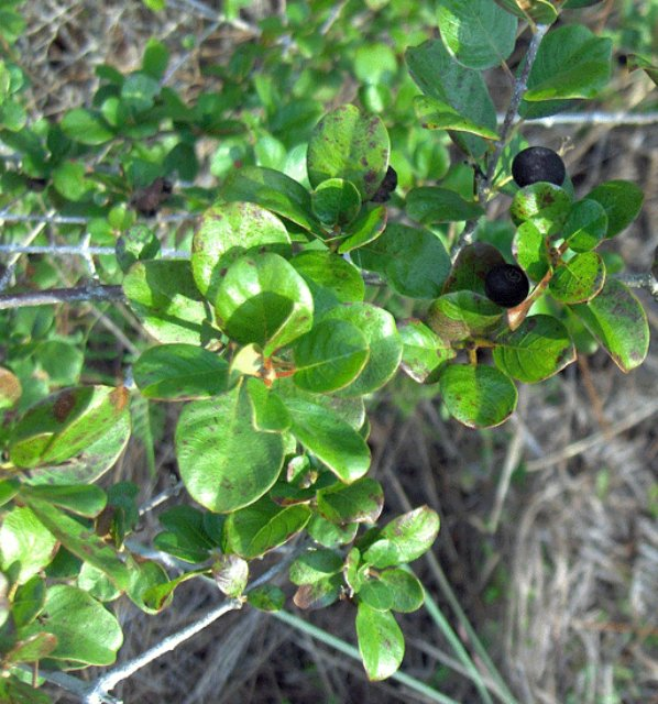 Found in Everglades National Park